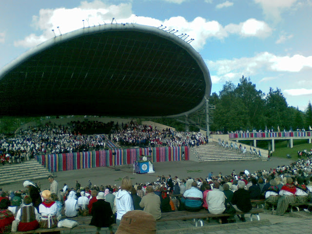 Spiritual Song Festival in Tartu